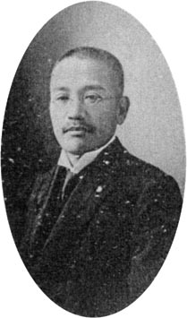 Ōsuke Asano, Chief of Electrical Engineering Department of Koshu Gakko.